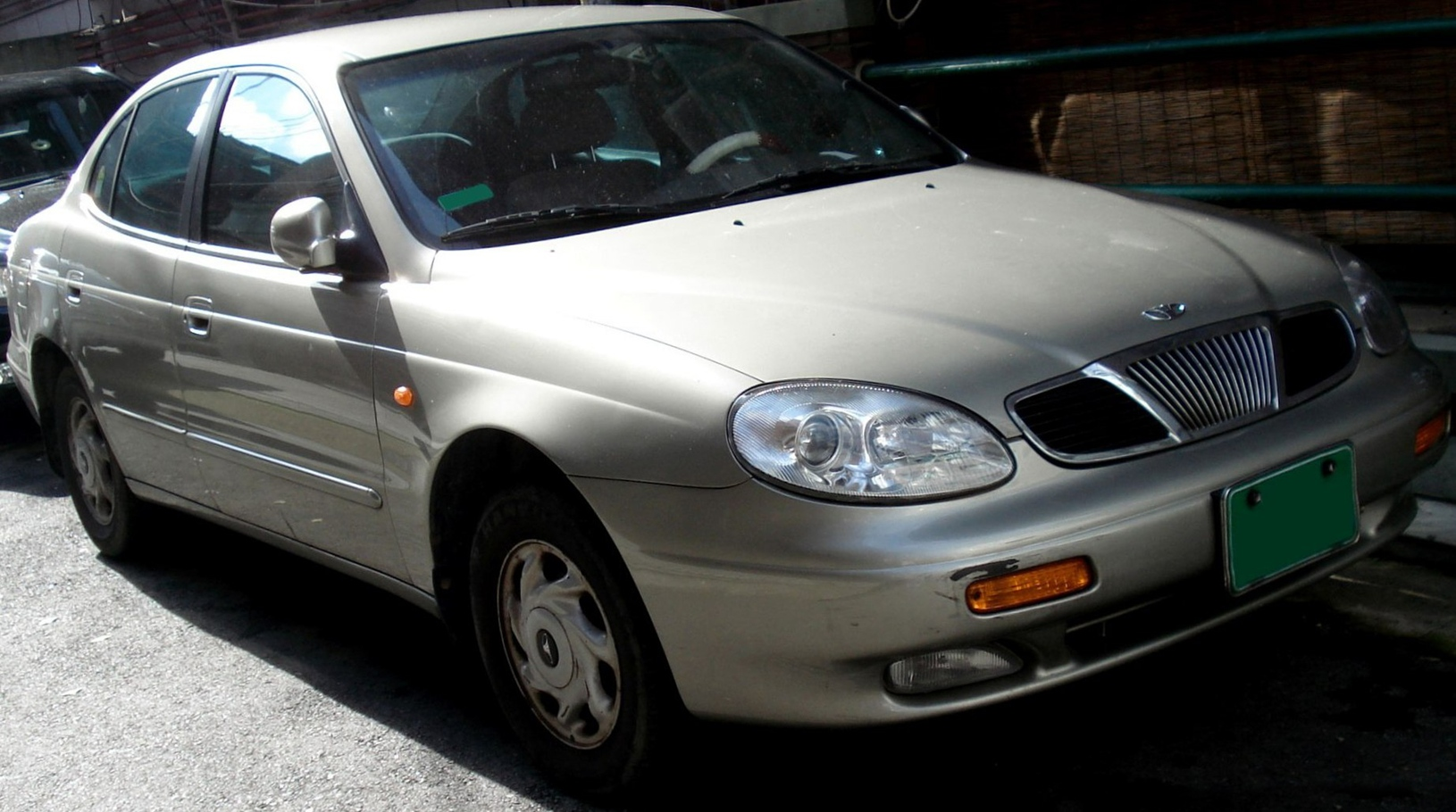 Daewoo Leganza